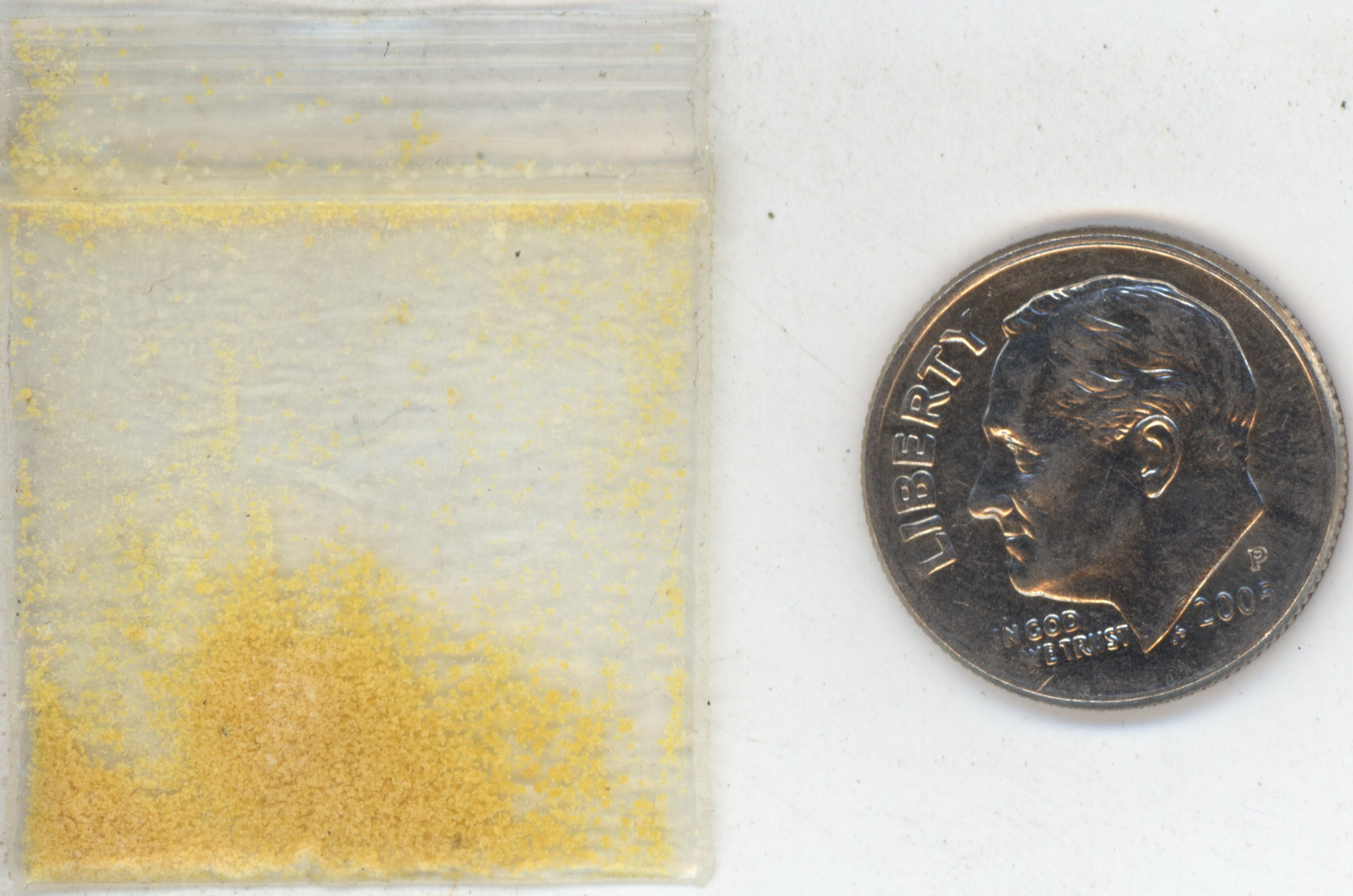 A confiscated bag of the hallucinogen DMT; 1 dose worth, with dime to show small scale.